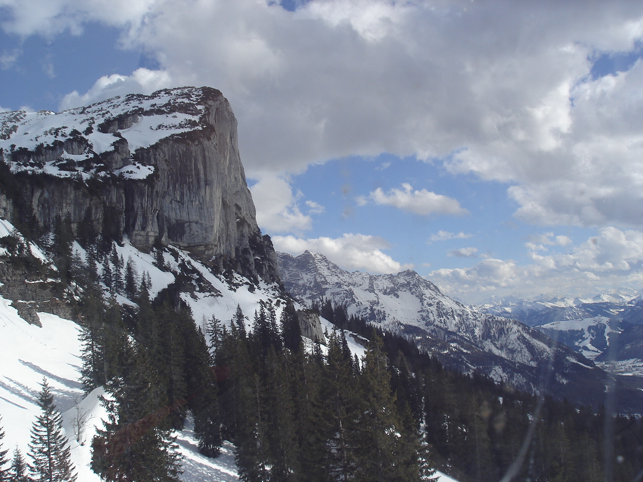 Waidringer Steinplatte 1869m, heading South. Left Rothorn 2403m and Seehorn (Ulrichshorn) 2155m (Loferer Steinberge). right valley Pillerseetal, background Buchensteinwand 1456m, far back Hohe Tauern